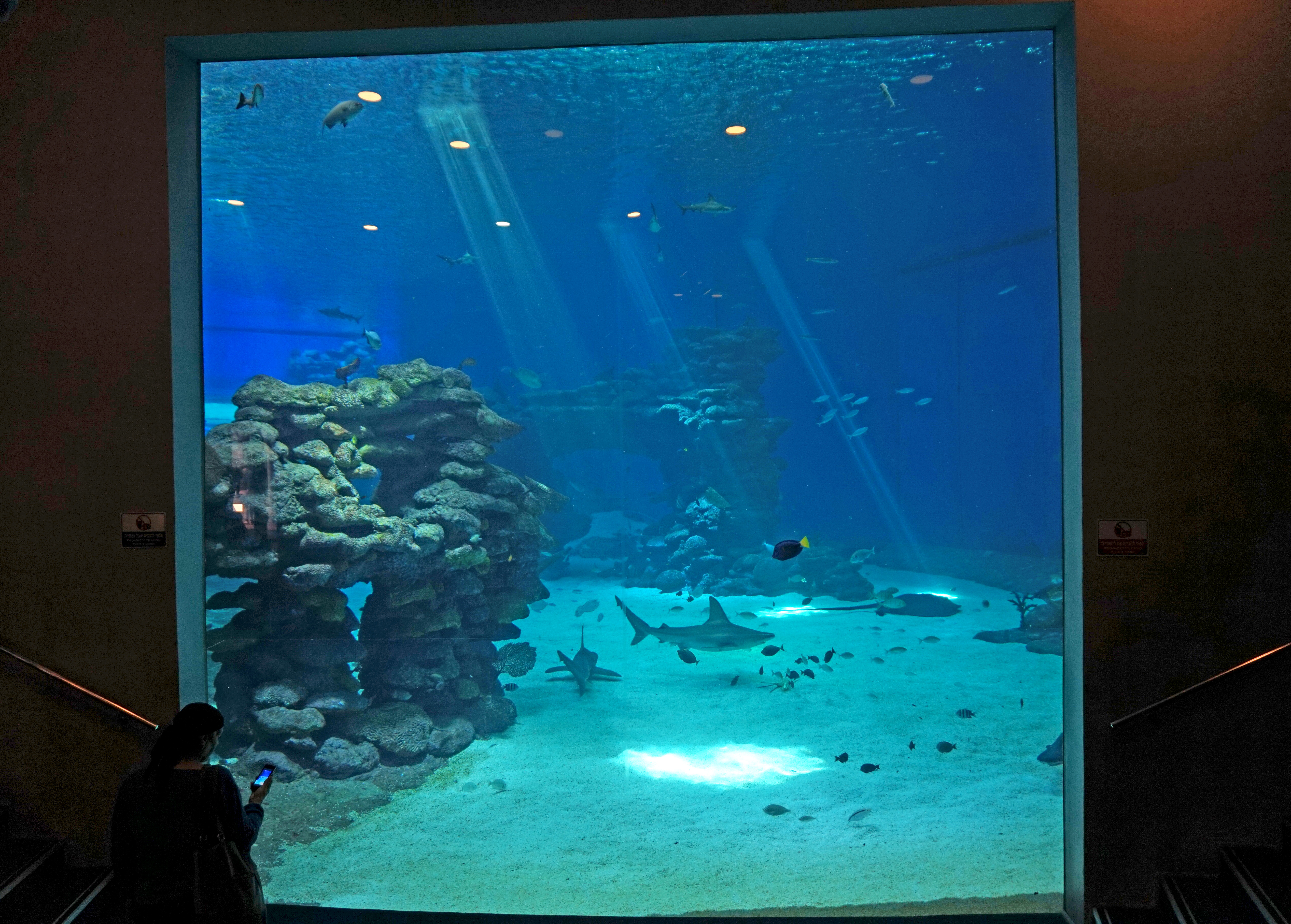 A window to shark pool in Underwater Observatory Marine Park, Eilat.This photograph was taken with a Sony ILCE-5000